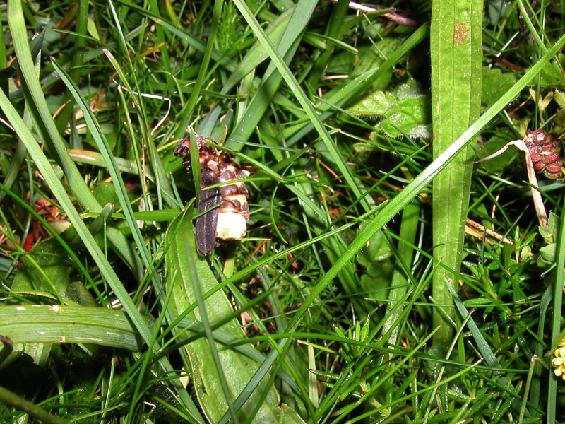 A male Common Glow-worm (Lampyris noctiluca) mating with a female in the grass in a field in Princes Risborough, Buckinghamshire, UK. Only the male glow worm has wings and is smaller than the glowing female.